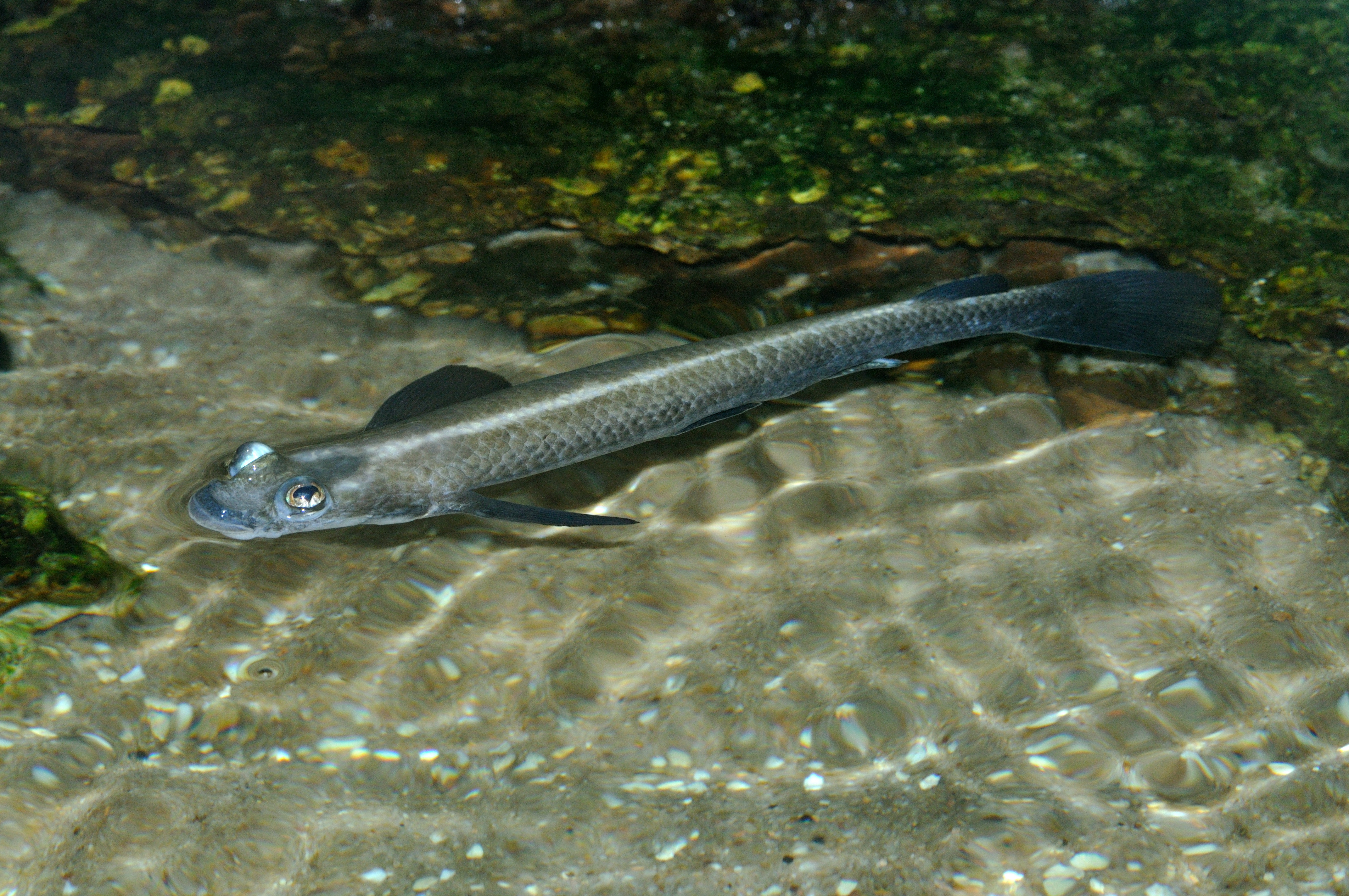 Four-eyed Fish (Anableps anableps) in the Tierpark Hellabrunn, Munich, Germany.